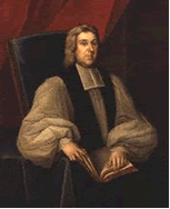 Thomas Tenison (1636-1715)